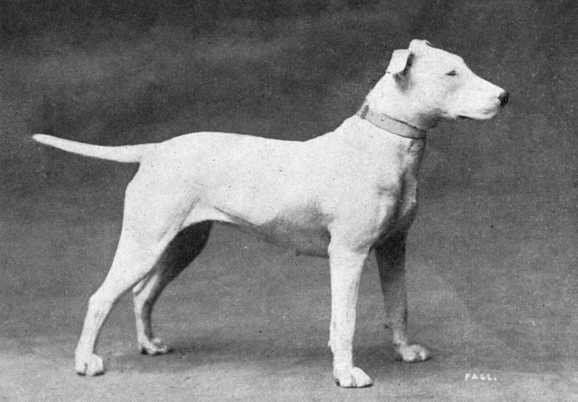 English Bull Terrier from 1915